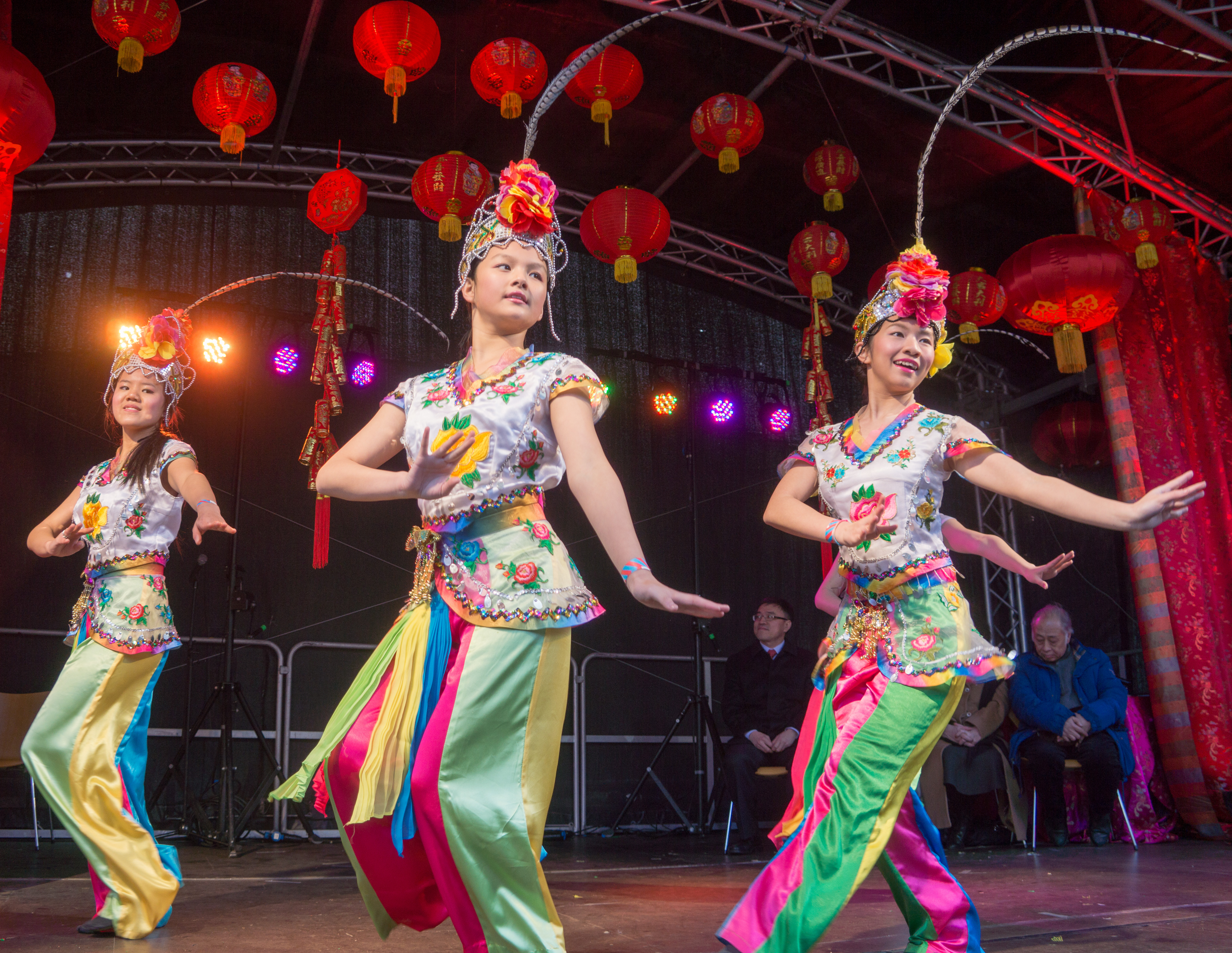 CHINESE NEW YEAR FESTIVAL DUBLIN (DCNYF) The Year of the Horse 31st January – 14th February 2014-01-21 Established in 2008 the Dublin Chinese New Year Festival (DCNYF) showcases the best of Sino Irish Culture in Ireland. The festival is delighted to deliver a high profile cultural programme including many diverse and exciting events.